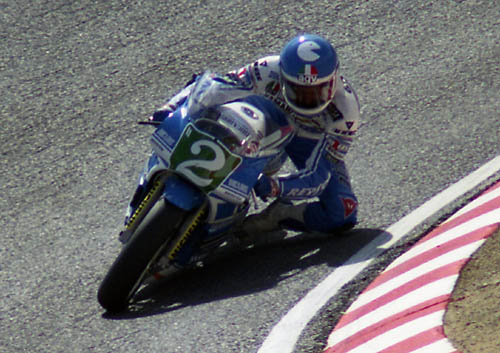 Juan Garriga, at Japanse Grand Prix 1989